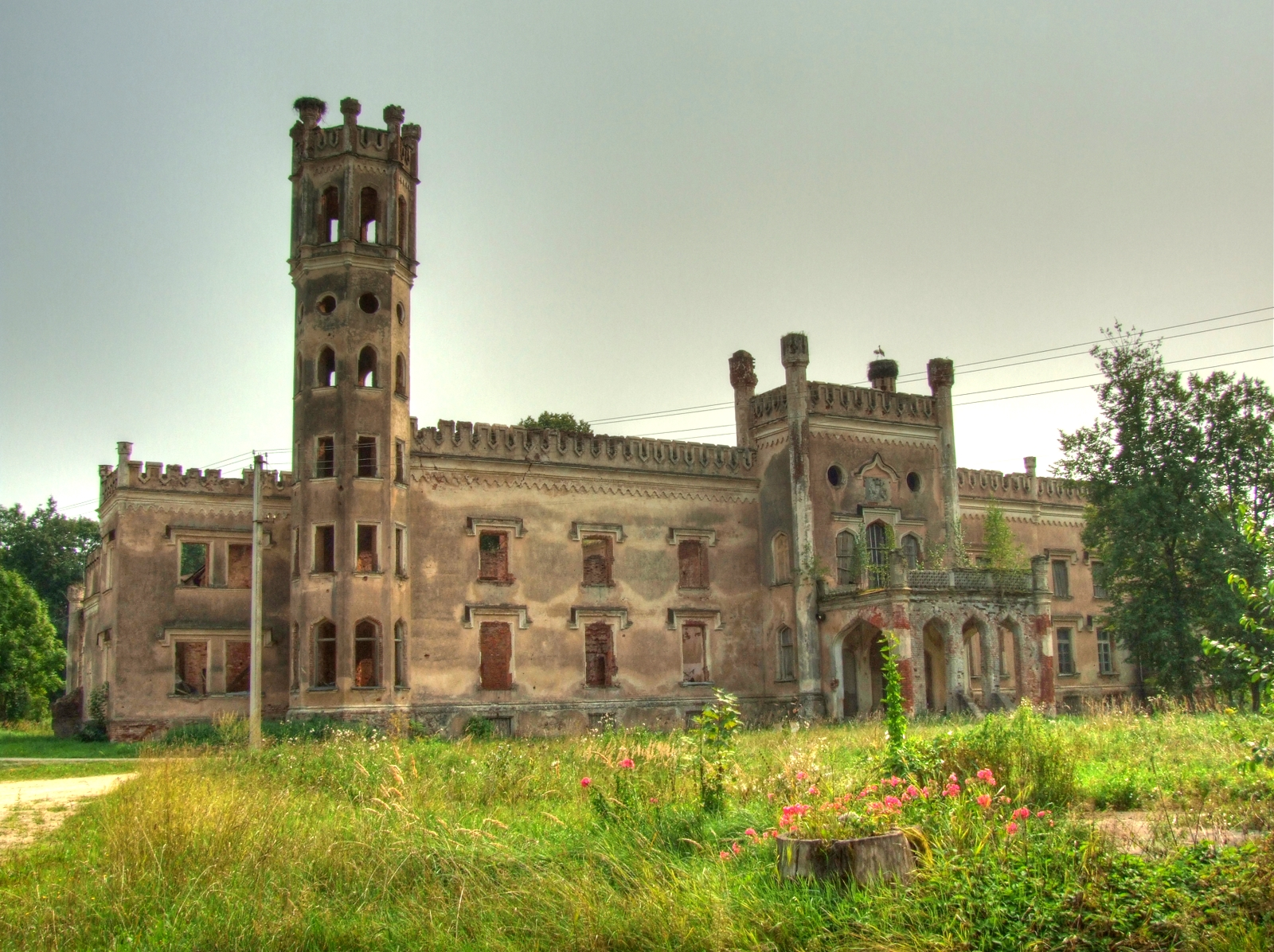 Odziena ManorLatviešu: Odzienas muižas pils